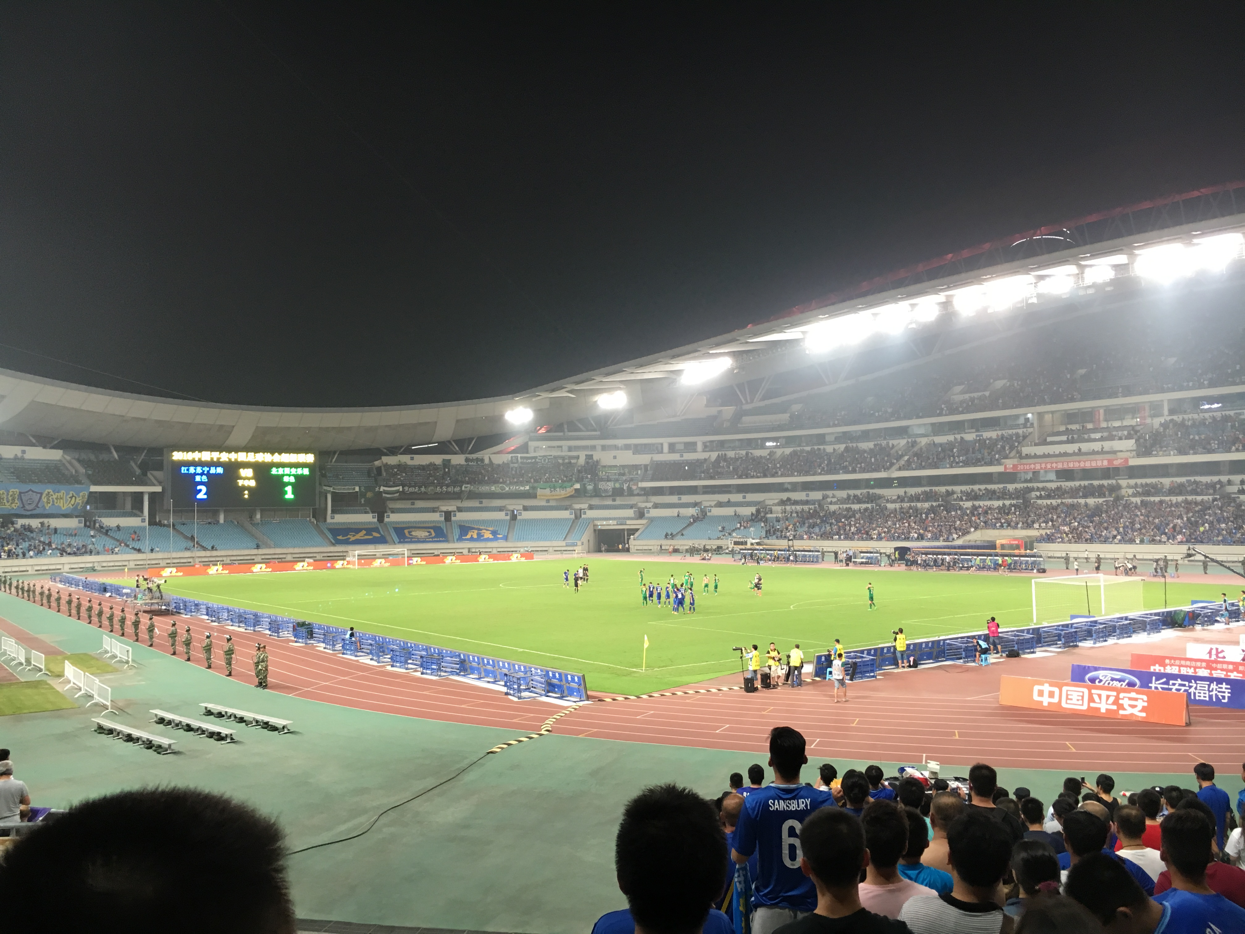 An inner view of Nanjing Olympic Sports Center after a match between Jiangsu Suning F.C. and Beijing Guoan in August 2016.